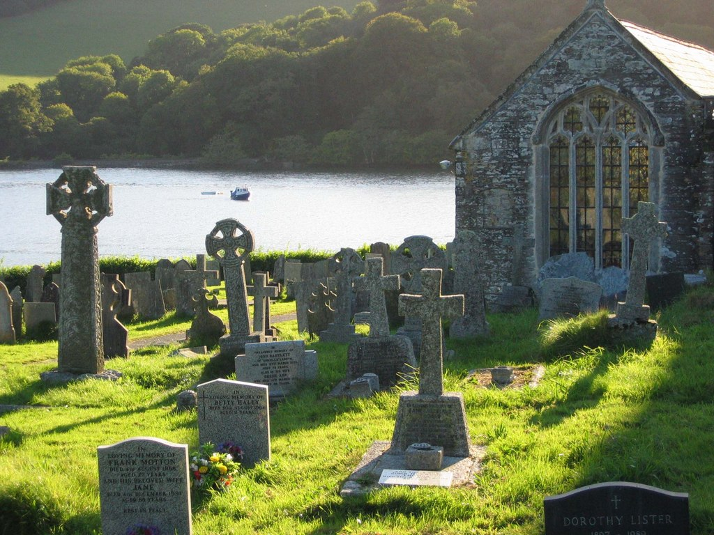 St Winnow parish churchyard, Cornwall, with the east window of the south aisle of the church. Beyond is the Fowey estuary.